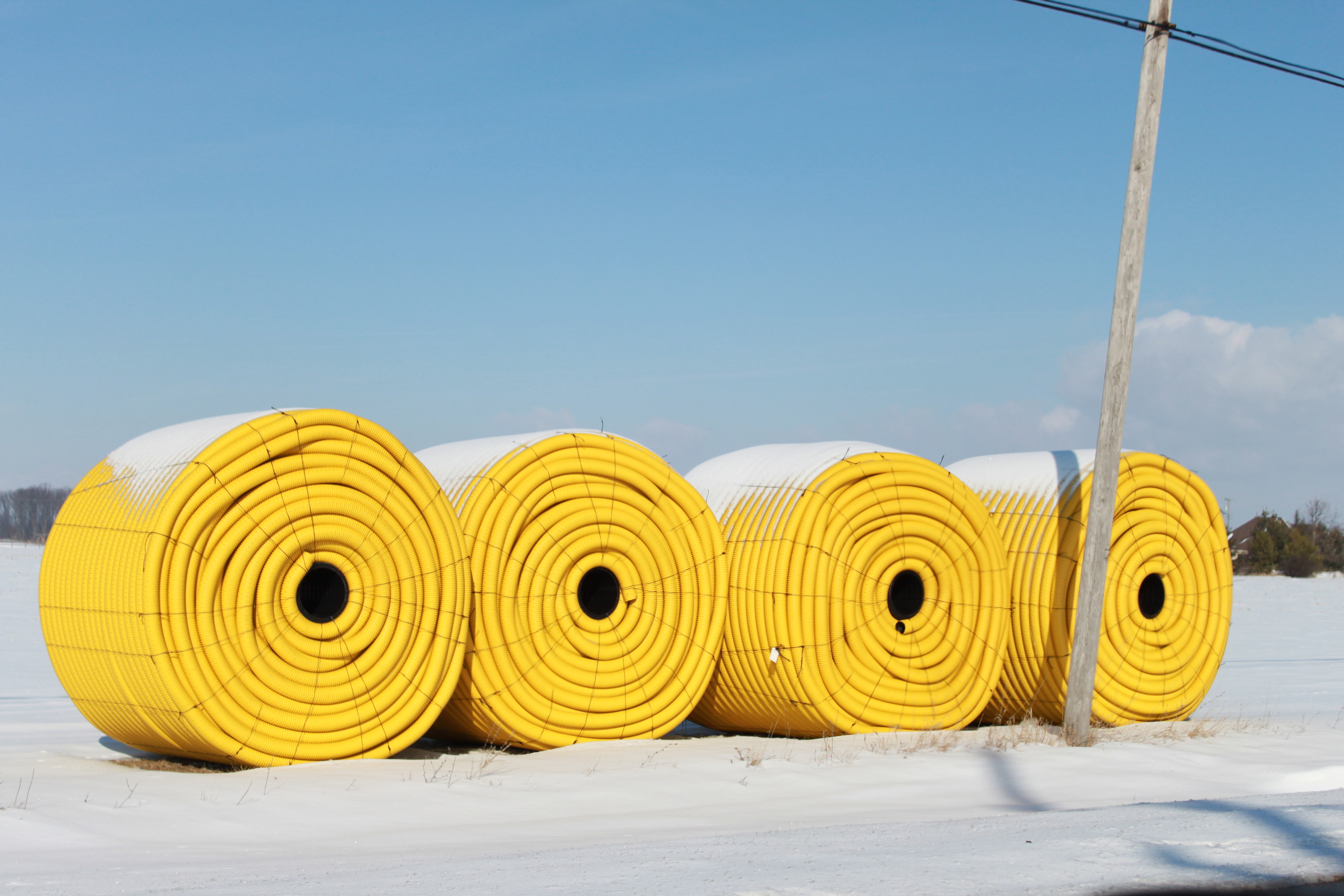 Polyethelene corrugated drainage pipe, on farm in Ida Township, Michigan